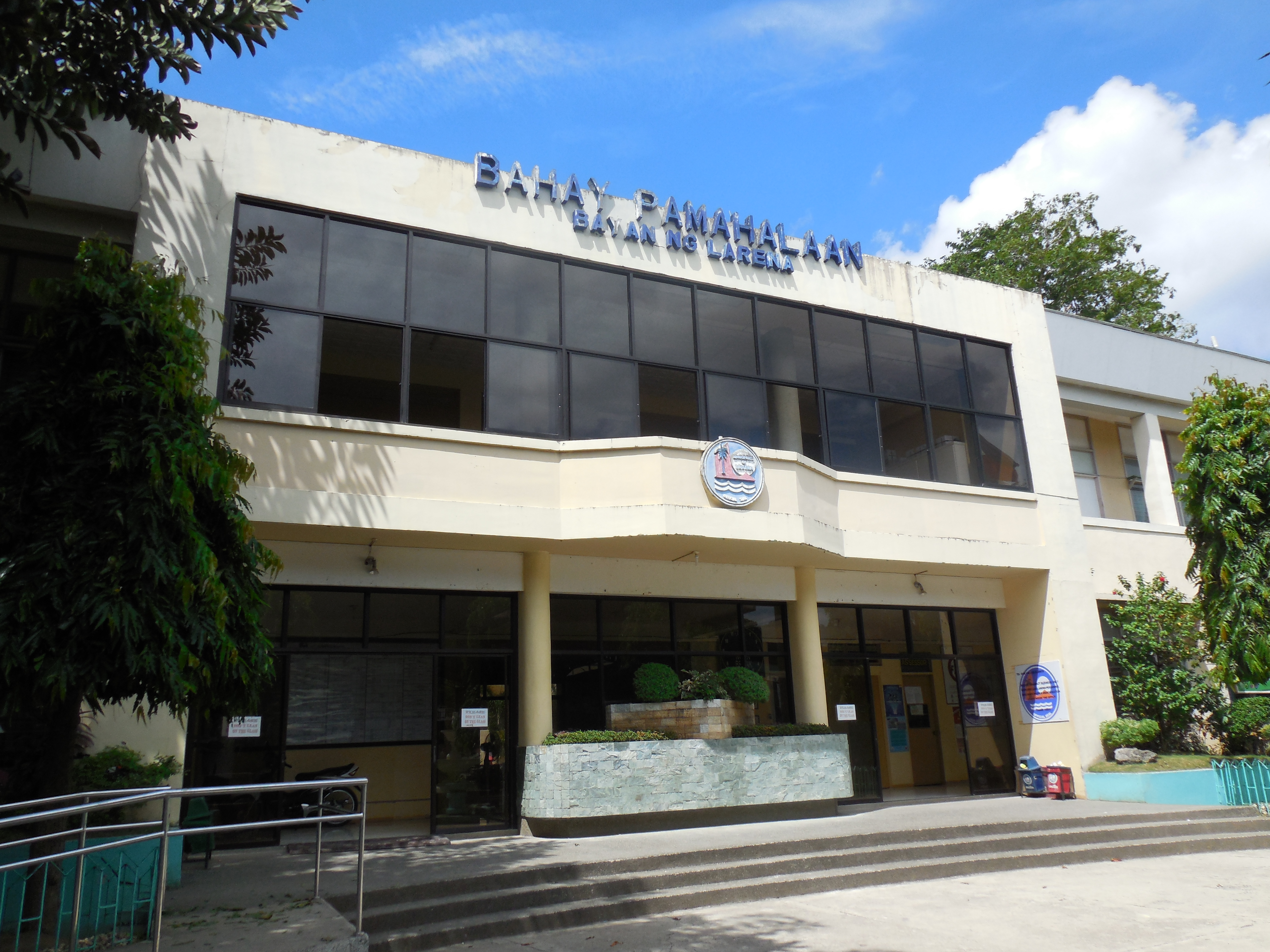 The municipal town hall of Larena, Siquijor